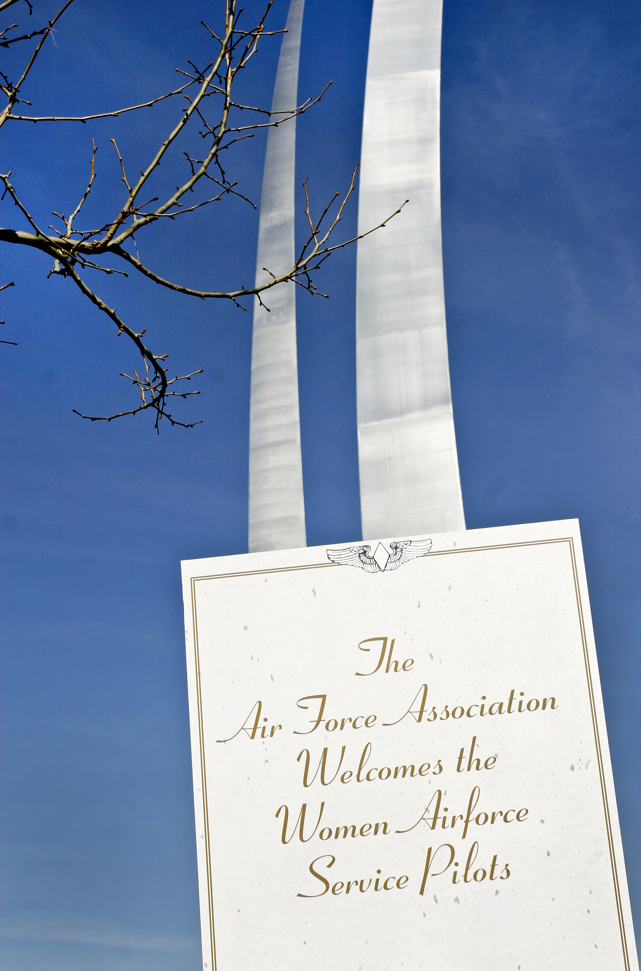 A sign welcomes the World War II women pilots who flew for the Women Airforce Service Pilots to a wreath-laying and remembrance ceremony at the Air Force Memorial in Arlington, Va., March 9, 2010.